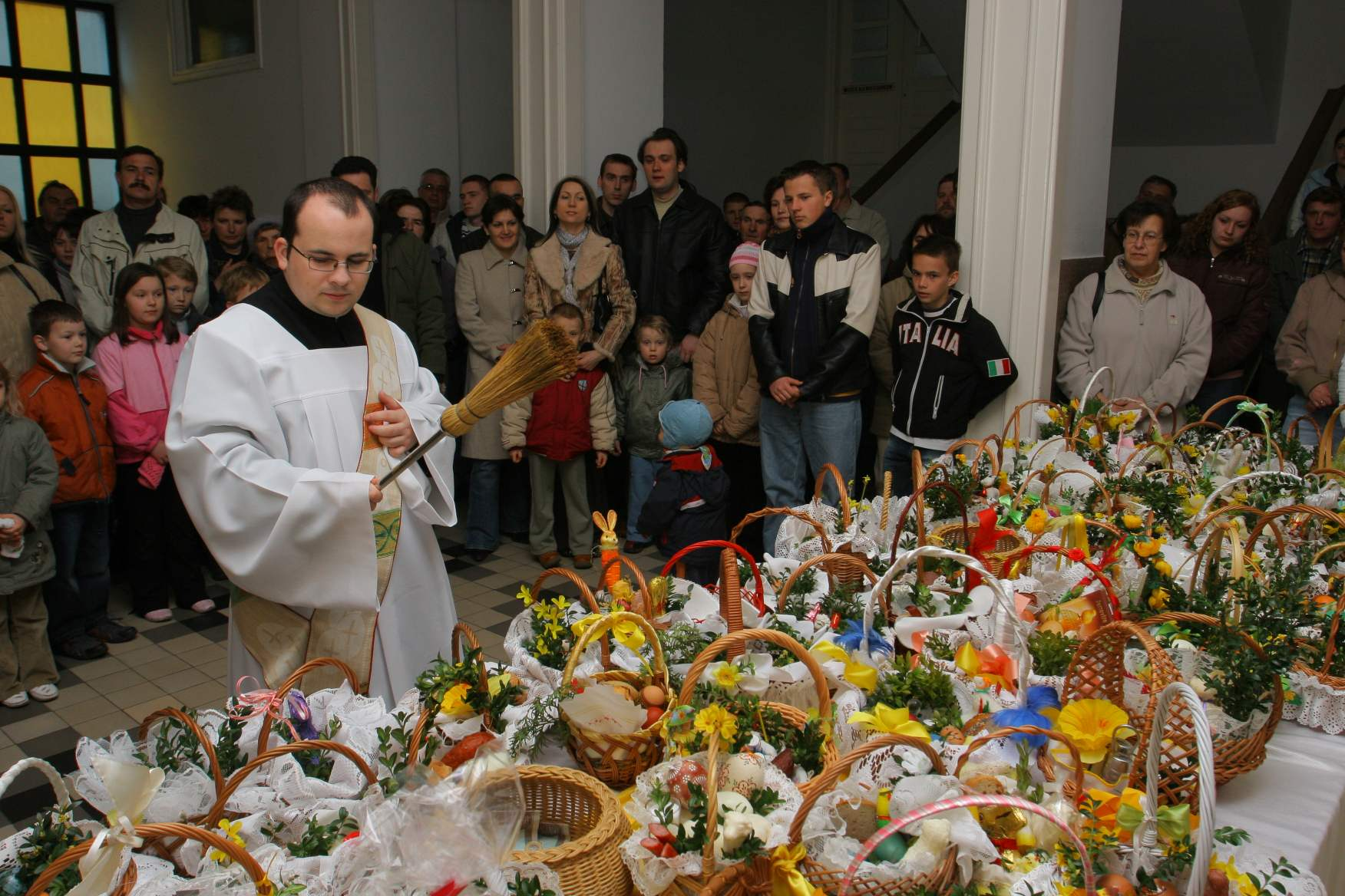 Deacon blessing the Easter food (Święconka), Ołtarzew, Poland 2007